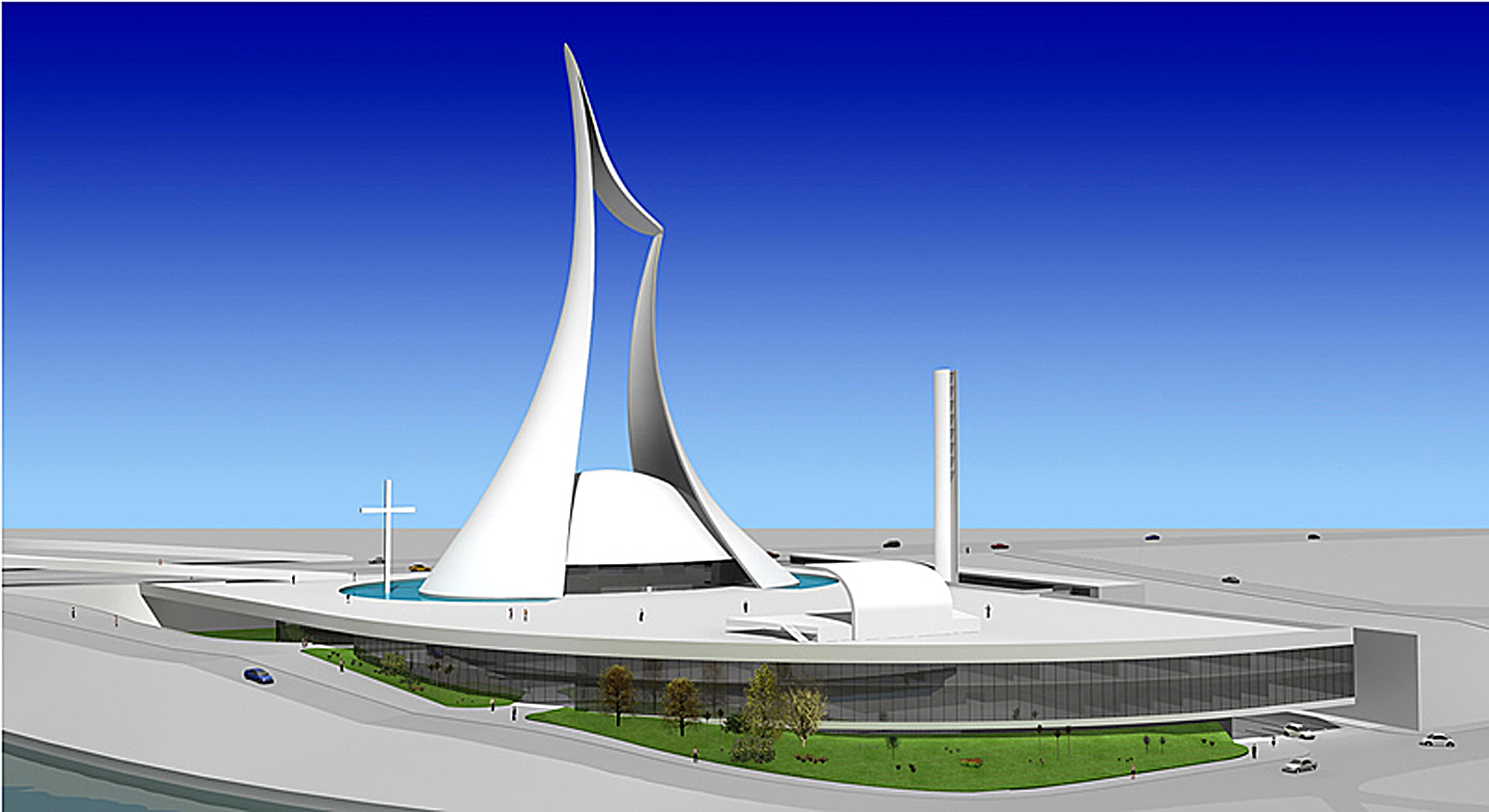 Representantes dos governos municipal e estadual e do setor empresarial da cidade conheceram no dia 22/08/2011, em evento na Fiemg, o projeto da Catedral Cristo Rei. Elaborado por Oscar Niemeyer, o projeto prevê um grande templo e uma praça externa, com capacidade para 20 mil pessoas nas duas áreas, na avenida Cristiano Machado, bairro Juliana, região Norte. A catedral será a sede definitiva da Arquidiocese Metropolitana de Belo Horizonte e reunirá todas as pastorais, os meios de comunicação e o Me­morial Arquidiocesano. Foto Reprodução Confira a matéria completa no endereço .br/dom/iniciaEdicao.do?method=DetalheArti...